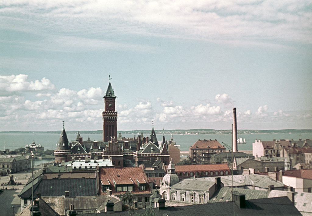 View over Helsingborg. In the middle is the Town Hall. On the other side of Oeresund channel is Denmark.